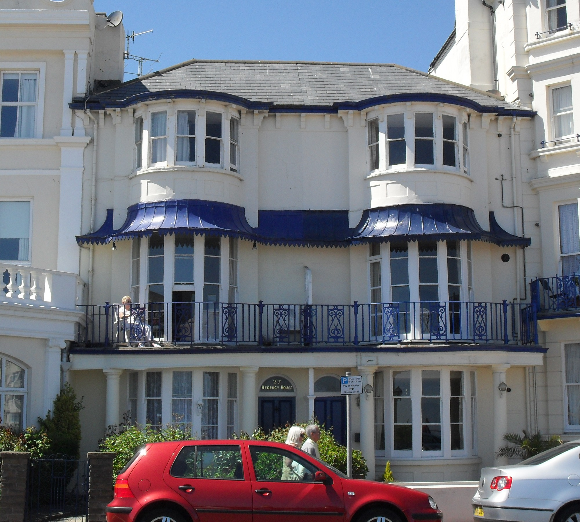 27 and 28 Marine Parade, Eastbourne, East Sussex, England. A pair of 1840s Regency-style cottages on Eastbourne seafront, on the site of the first Methodist place of worship in the Eastbourne area. Listed at Grade II by English Heritage (IoE Code 293579)